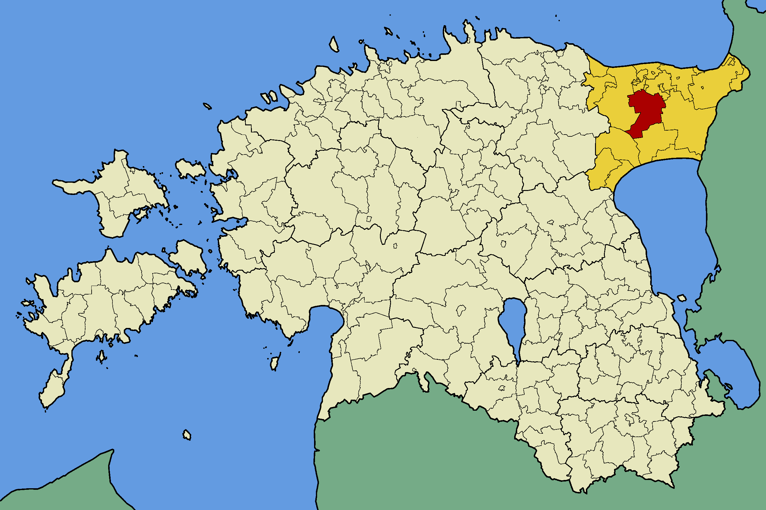 Map of Estonia with borders of municipalities (parishes). Ida-Viru county and Mäetaguse municipality emphasized.